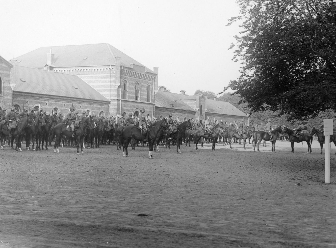 Dragoon Parade, Vester Allé Kaserne, Aarhus, Denmark